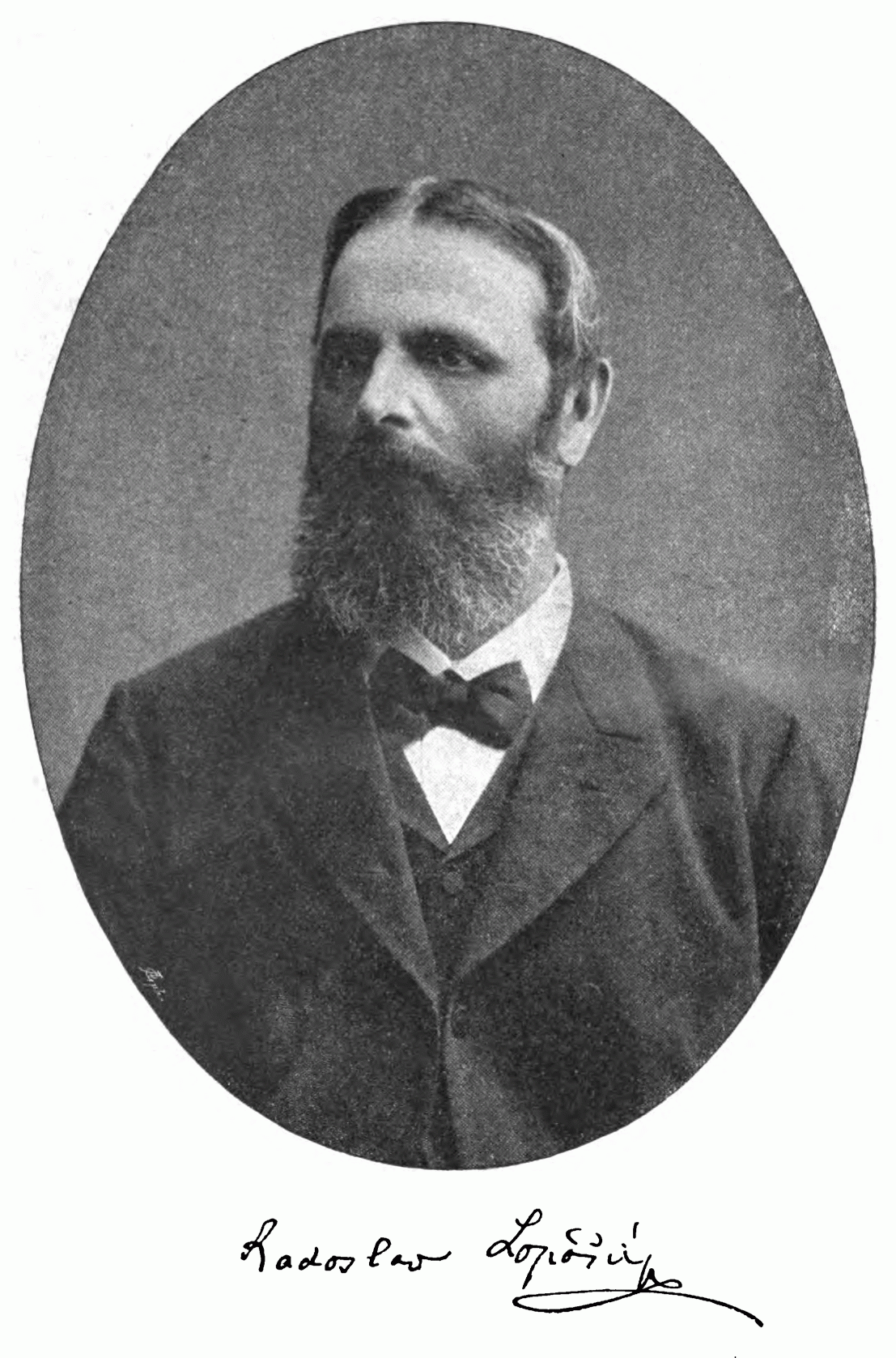 Photography Radoslav Lopašić (1835-1893) with signature